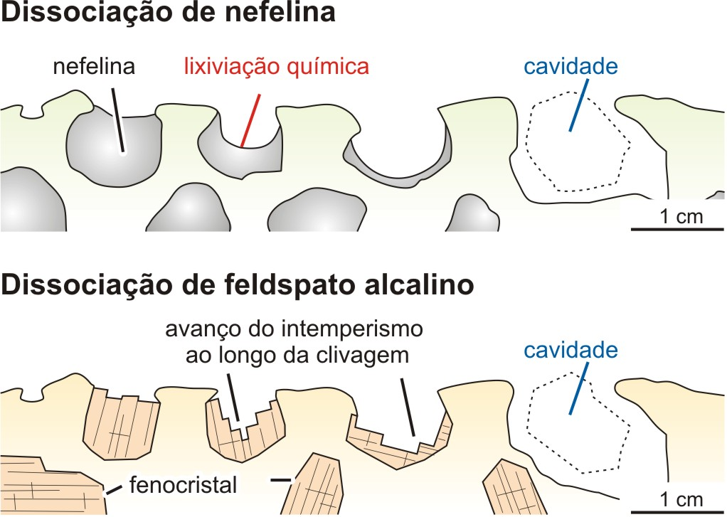 Case hardening principçe